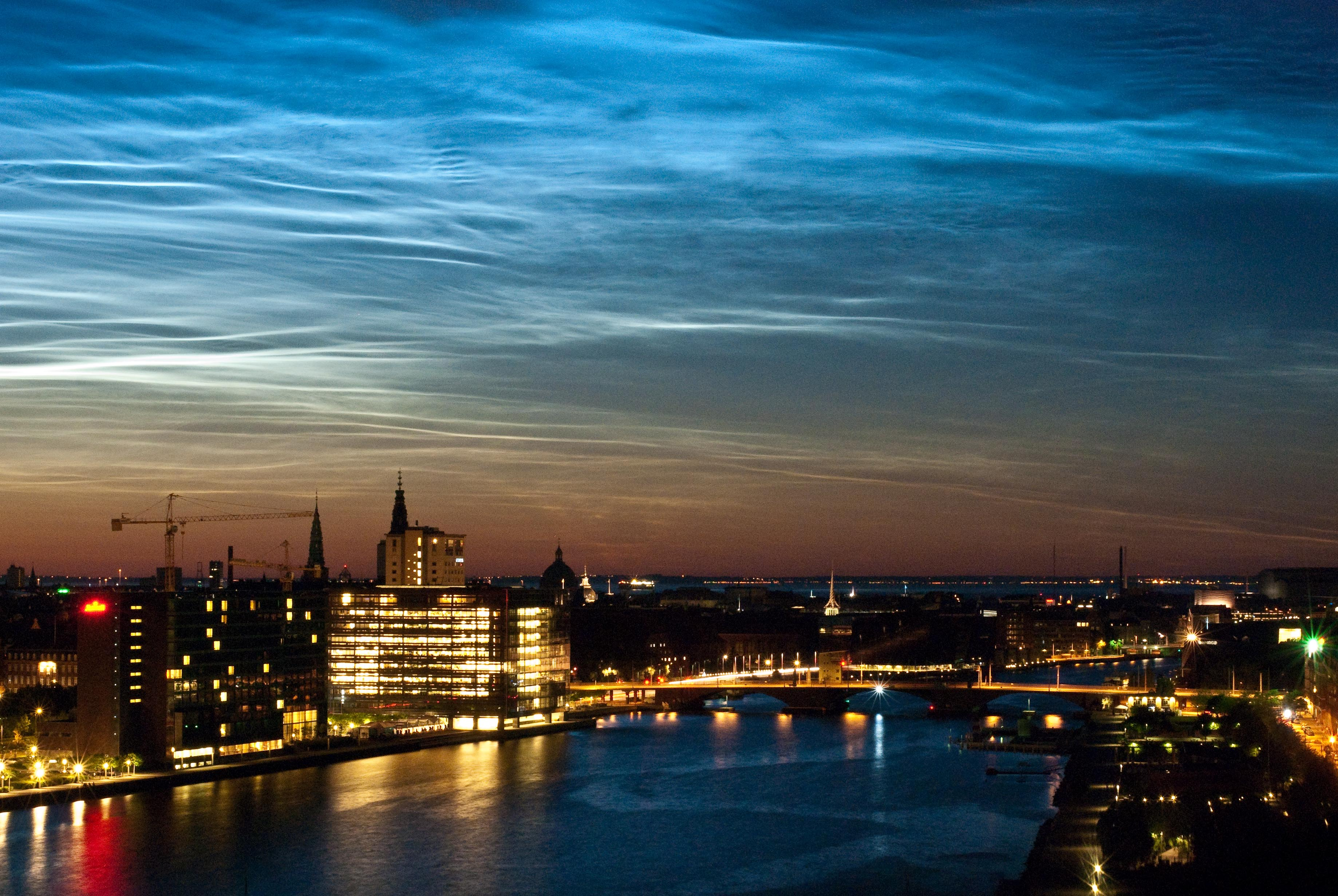 Iceland Quay